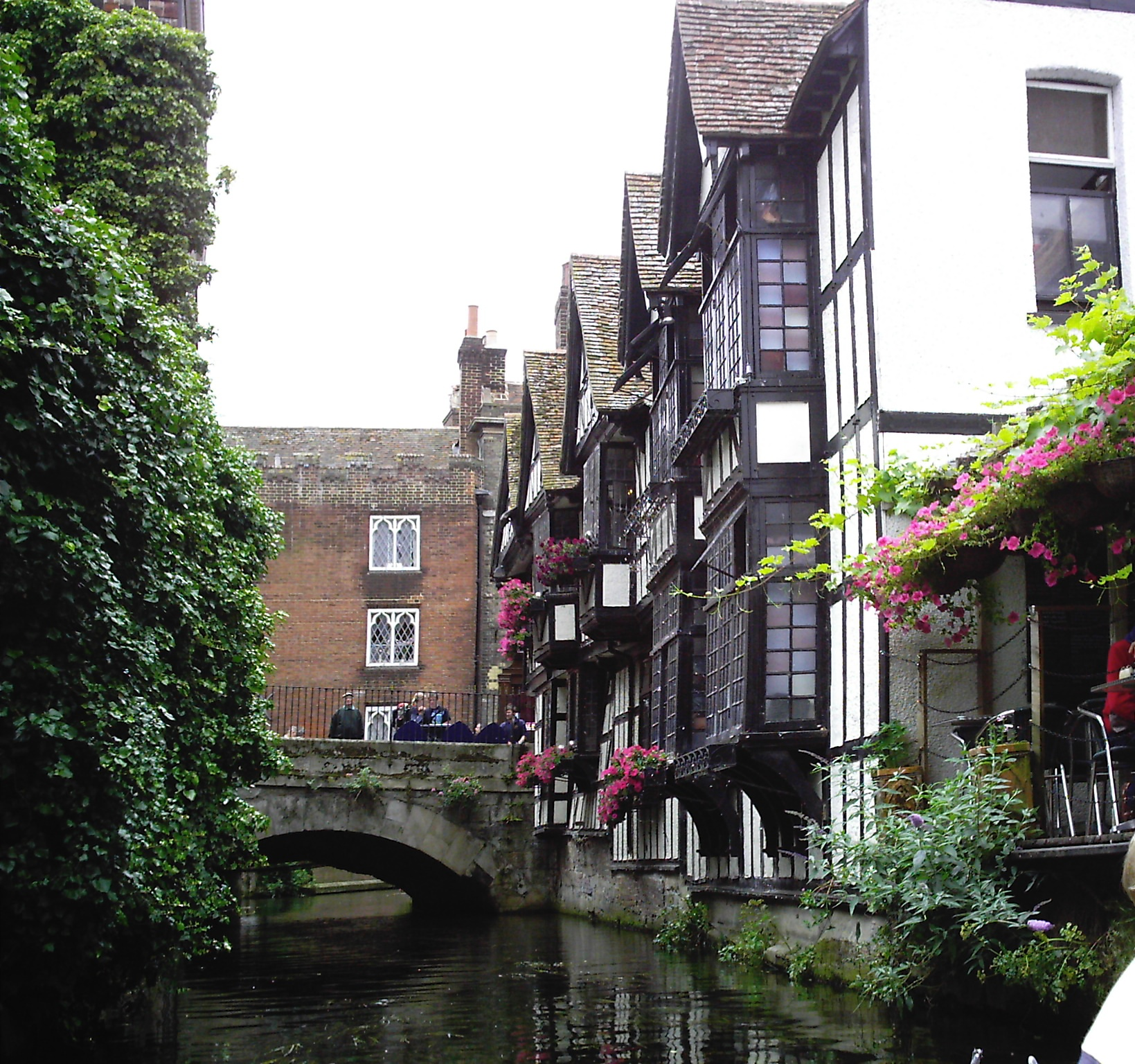 Suzanne Knights, my photo, July 2007